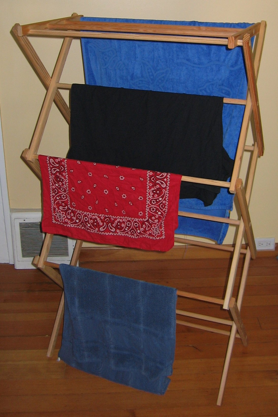 A clothes horse. I took this, and release it under the GFDL.